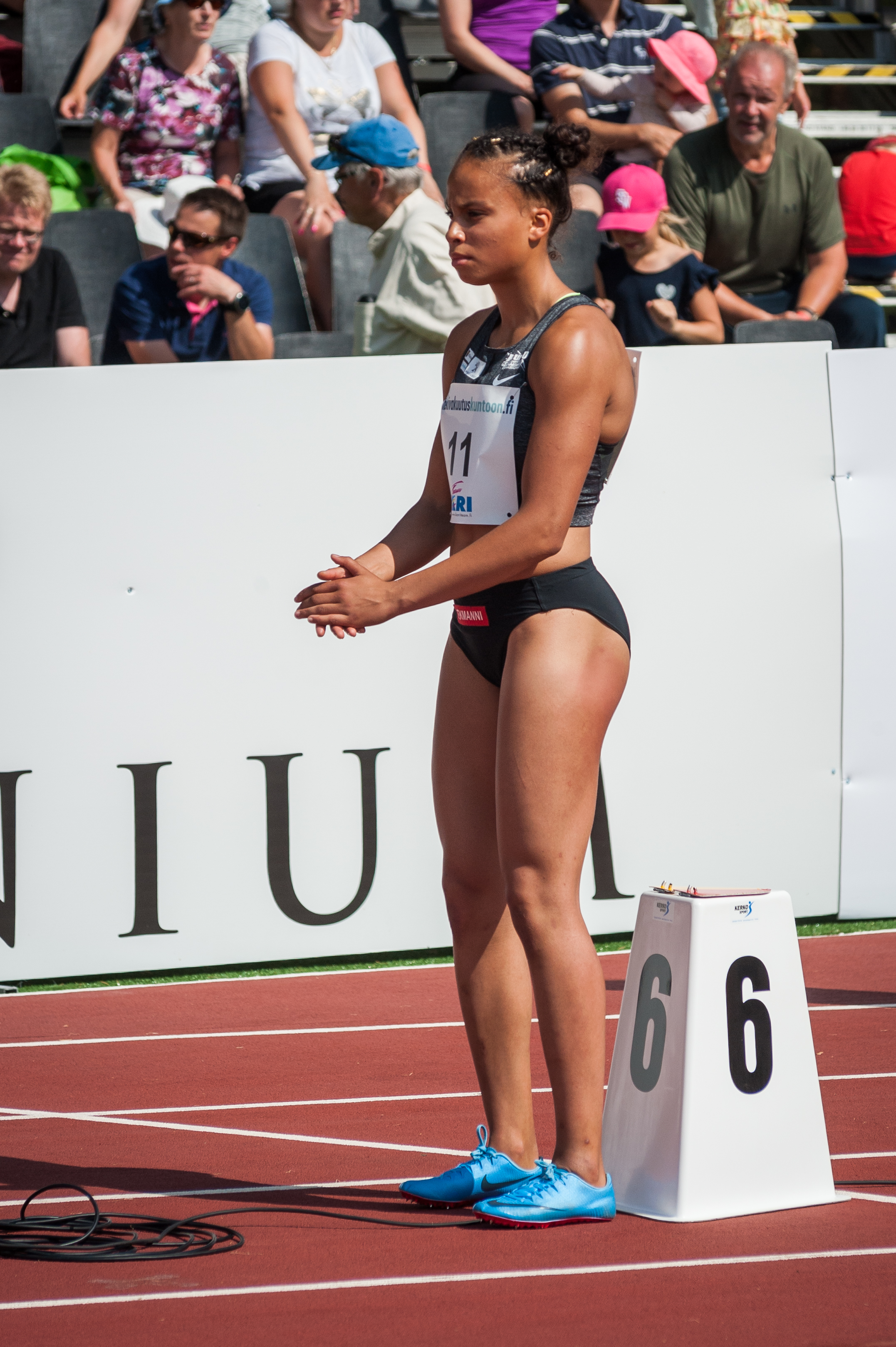 Women's 200 m competition at the 2018 Kalevan Kisat, the Finnish championships in athletics, in Jyväskylä, Finland.